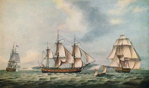 'East India Company's Packet Swallow', 1788. From Adventures By Sea From Art of Old Time, by Basil Lubbock. [The Studio Ltd., London, 1925] Artist: Thomas Luny. (Photo by Print Collector/Getty Images)